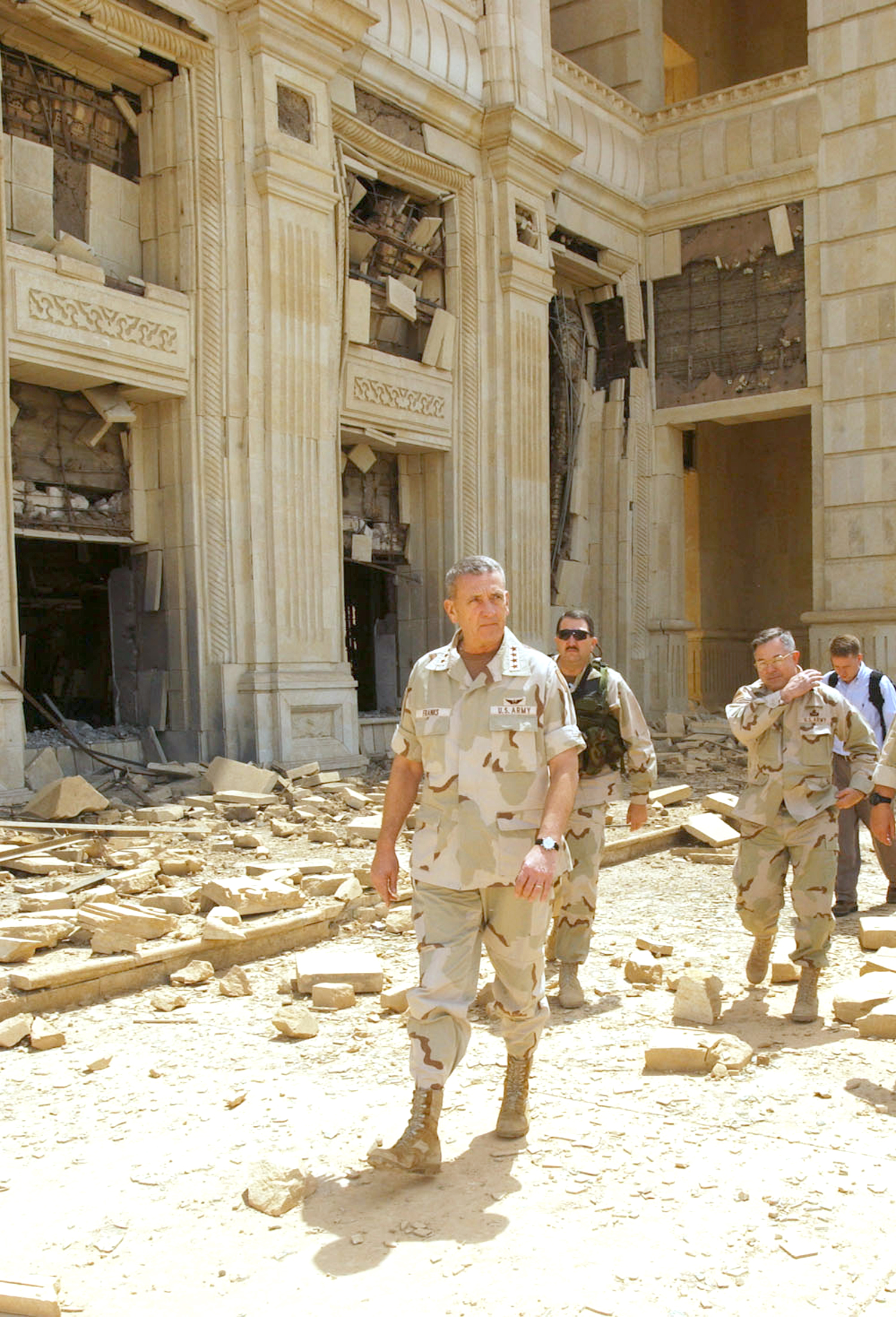 Baghdad, Iraq (Apr. 16, 2003) -- Gen. Tommy Franks, Commander, U.S. Forces Central Command (CENTCOM), walks through piles of rubble where a Tomahawk Land Attack Missile (TLAM) destroyed a portion of one of former Iraqi Leader Saddam Hussein’s many presidential palaces. Gen. Franks continues to lead the U.S. and coalition forces during Operation Iraqi Freedom. Operation Iraqi Freedom is the multi-national coalition effort to liberate the Iraqi people, eliminate Iraq's weapons of mass destruction, and end the regime of Saddam Hussein. U.S. DOD photo by Sgt. 1st Class David K. Dismukes. (RELEASED)